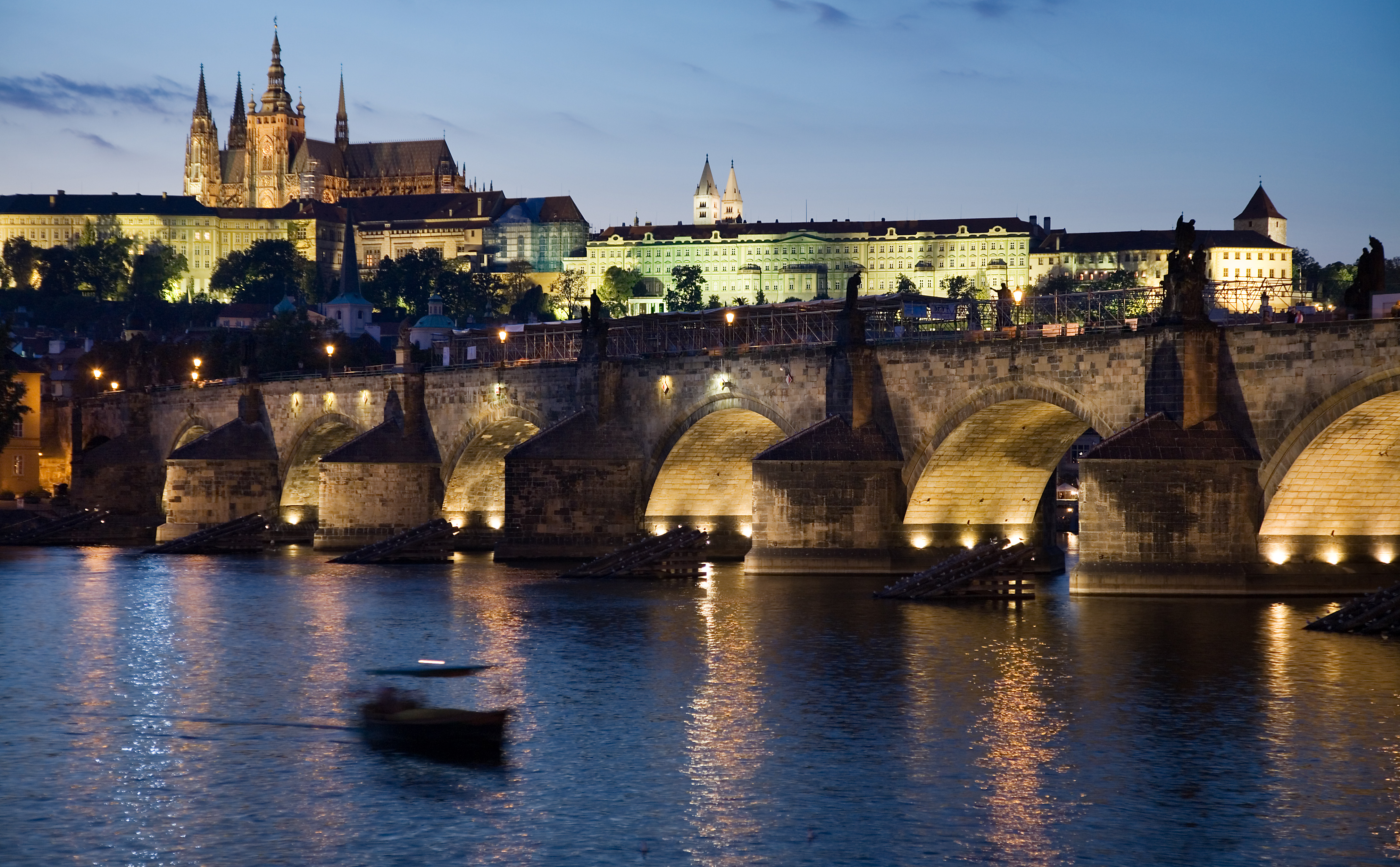 Night view of the Castle and Charles Bridge, Prague, Czech Republic